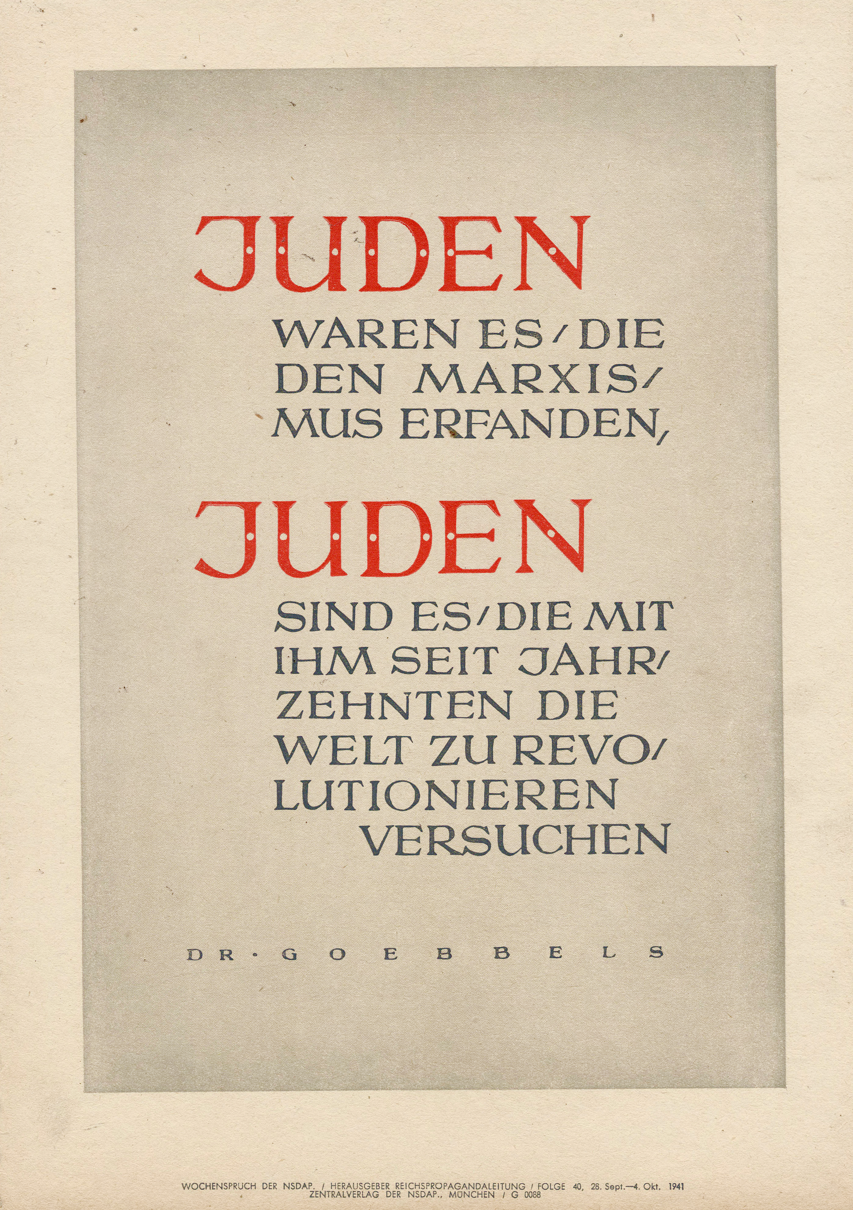 "It was the Jews who discovered Marxism, and the Jews who have attempted for decades to revolutionize the world with it. Dr. Goebbels."